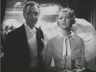 Cropped screenshot of William Powell and Myrna Loy from the trailer for The Great Ziegfeld